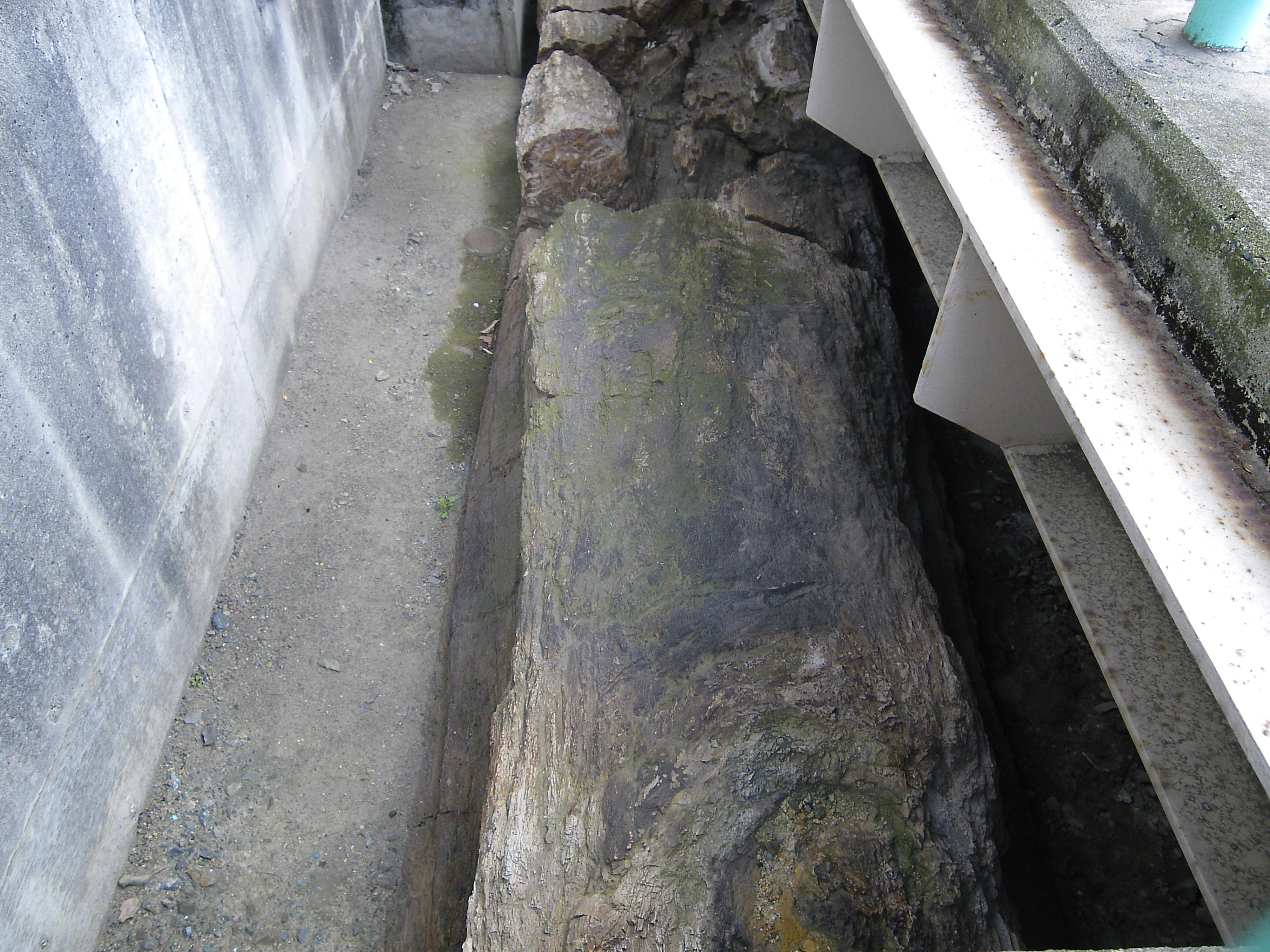 Big Petrified wood in Yomiya, Tobata ward, Kitakyushu.